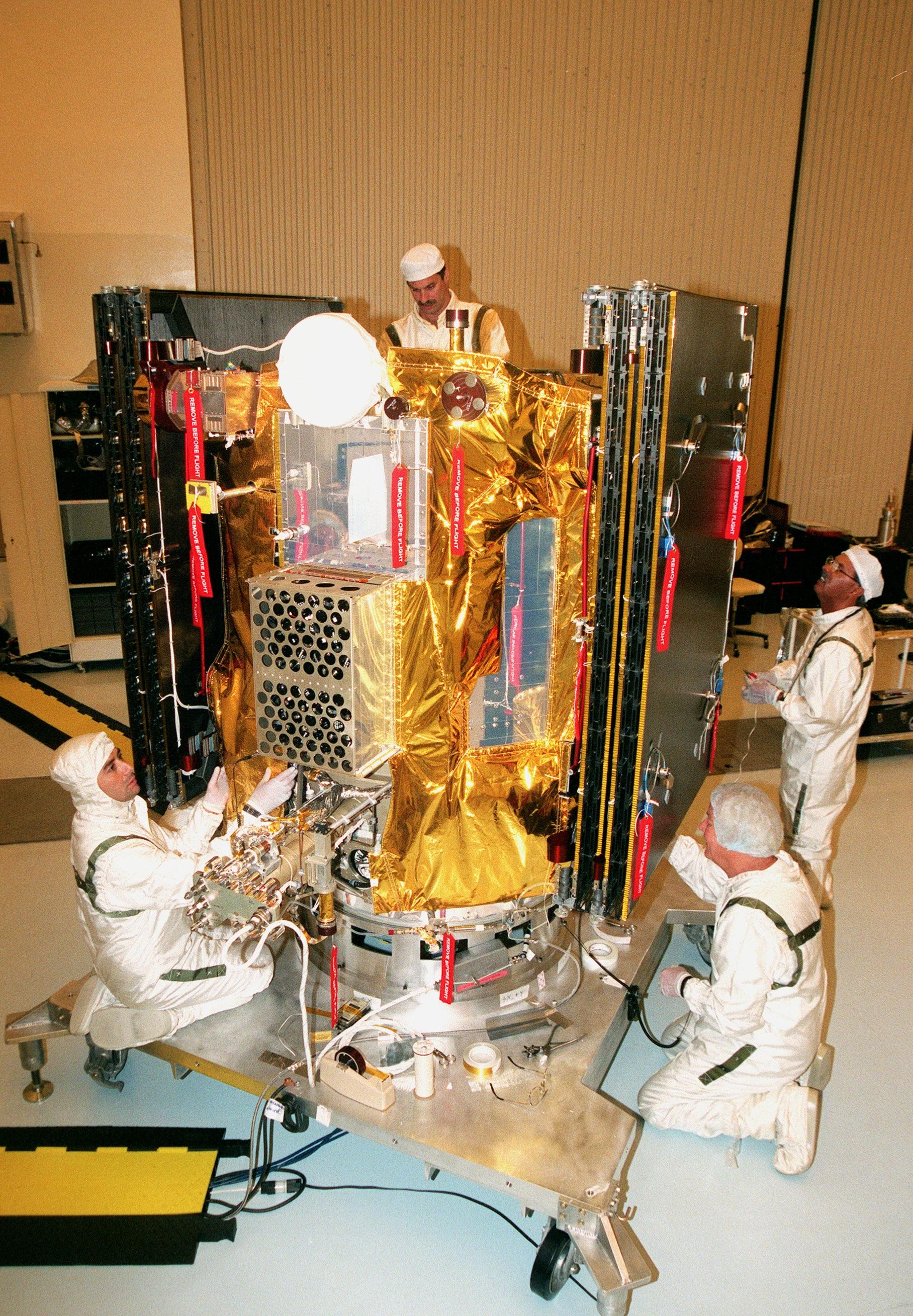 Workers in the Payload Hazardous Servicing Facility finish installing blanket insulation on Deep Space 1.